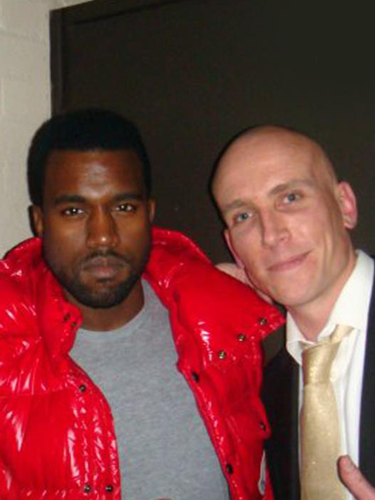 American rapper Kanye West pictured at Tup Tup Palace nightclub in Newcastle Upon Tyne, UK with club owner James Jukes.